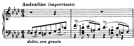 Excerpt from Liszt's Transcendental Etude 9 "Ricordanza"